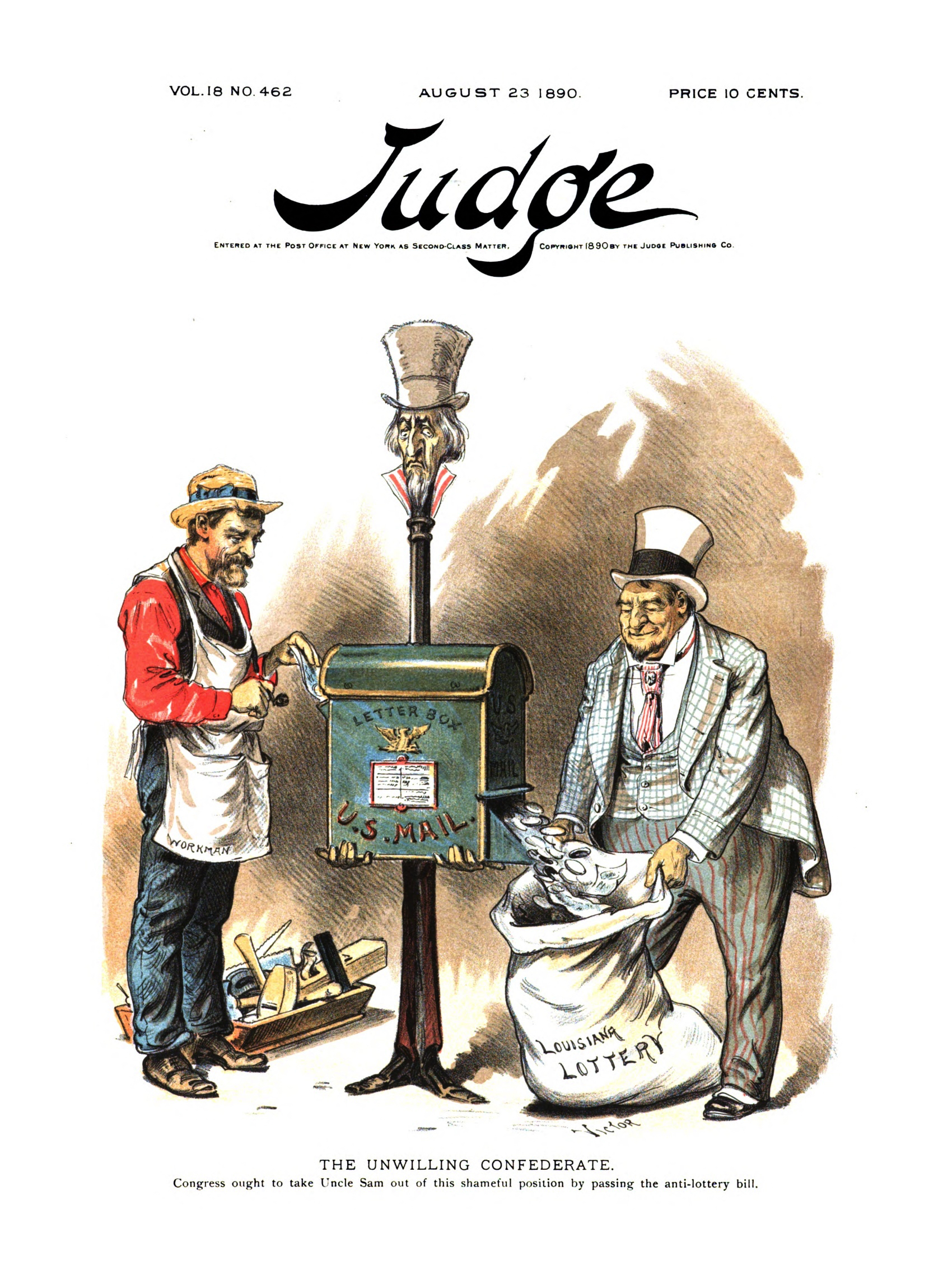 Judge Magazine Cover (23 Aug 1890)